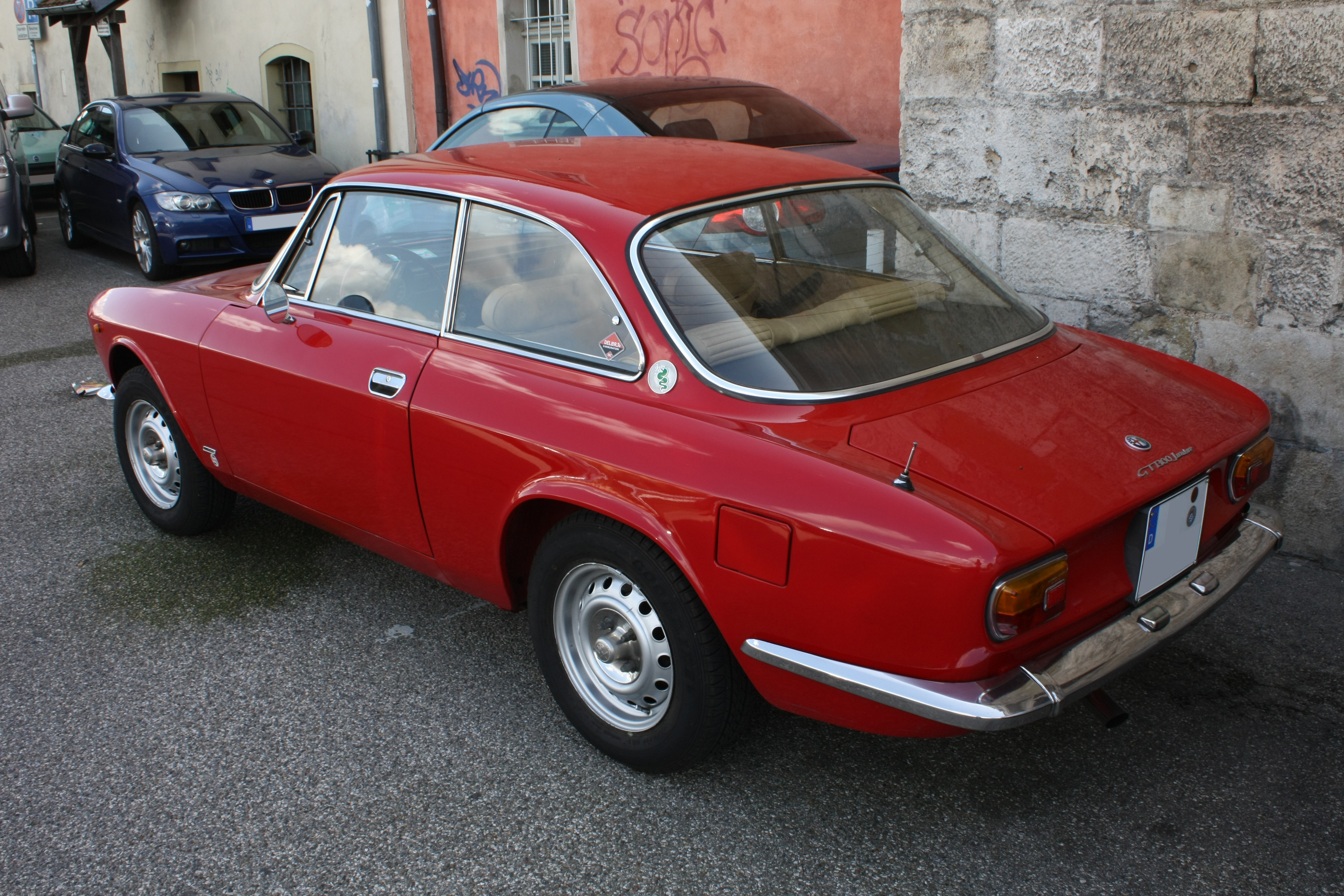 Alfa Romeo GT 1300 Junior